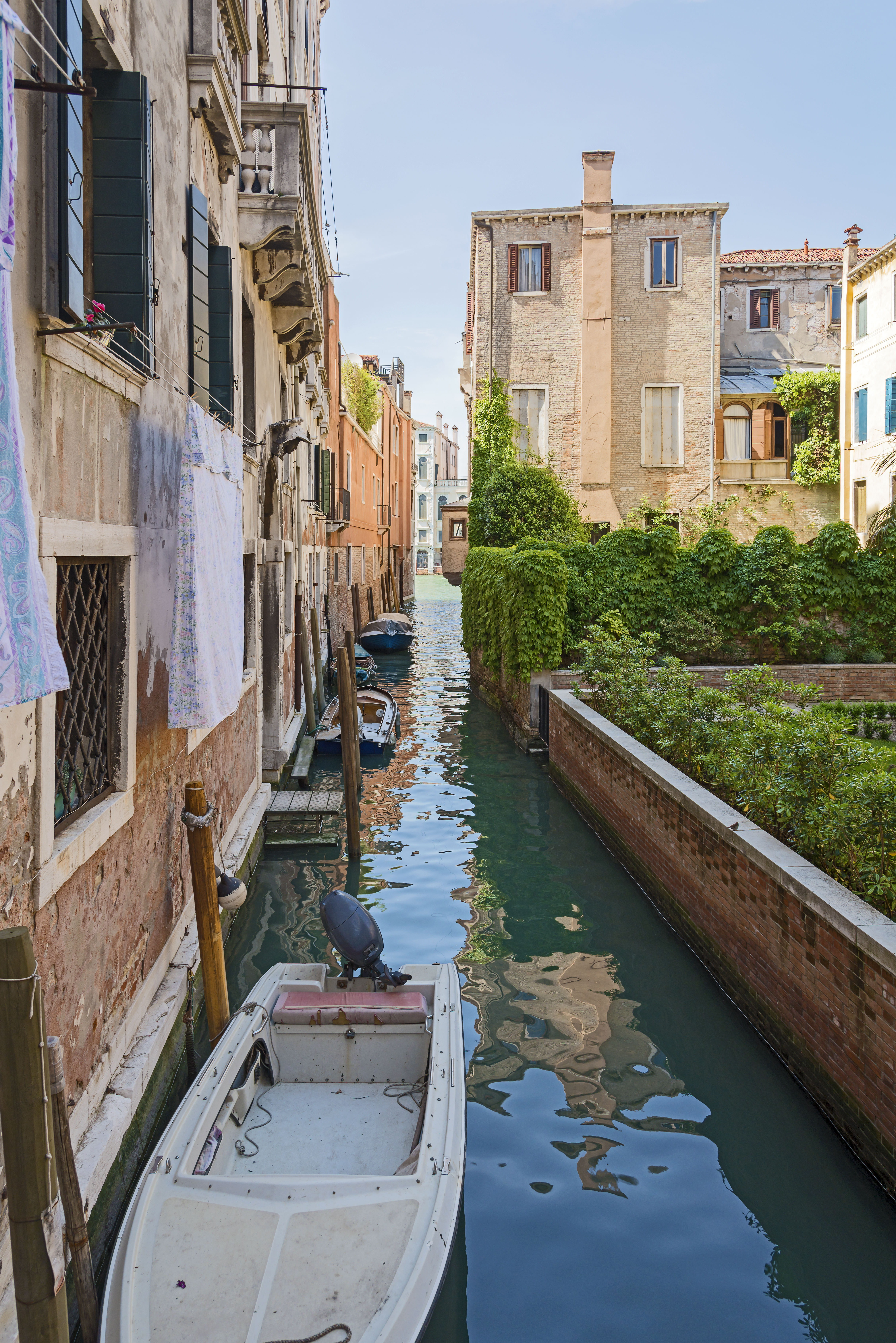 Rio Ca' Michiel in Venice. View from Ponte Michiel.